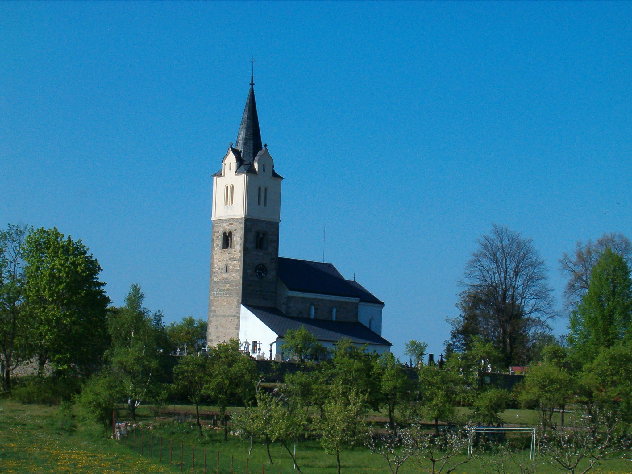 View to the church in Obděnice village, part of Petrovice village in Příbram District, Czech Republic